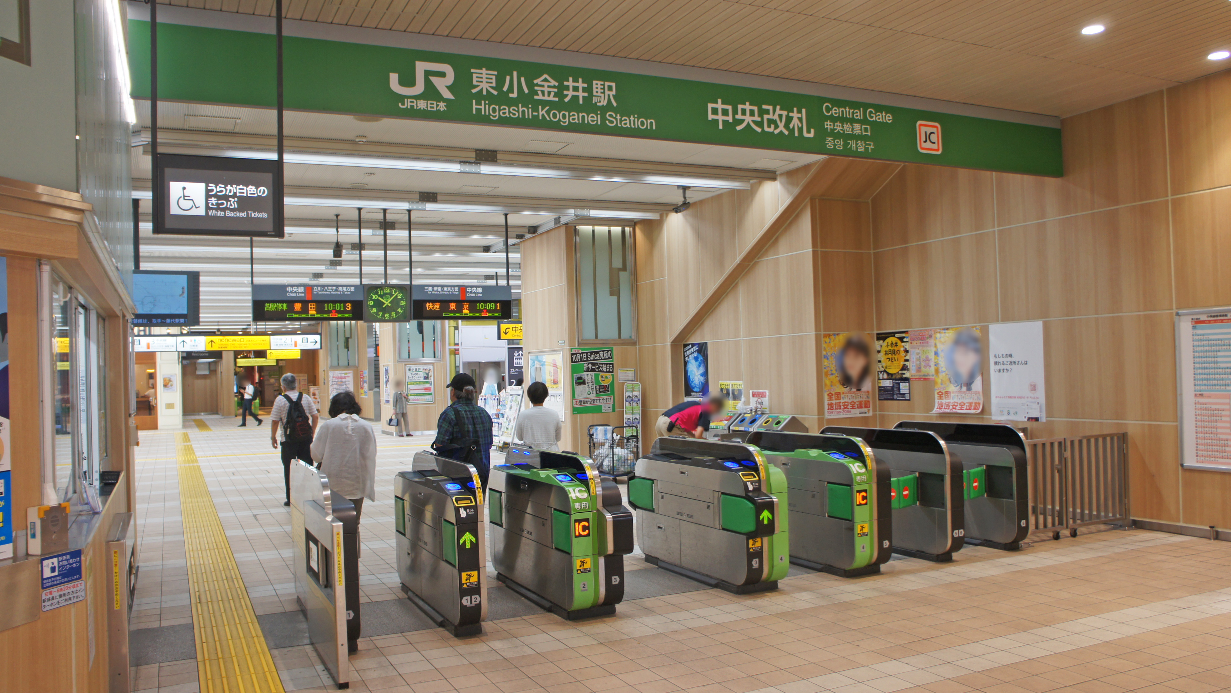 Central Gates of JR Chuo-Main-Line Higashi-Koganei Station